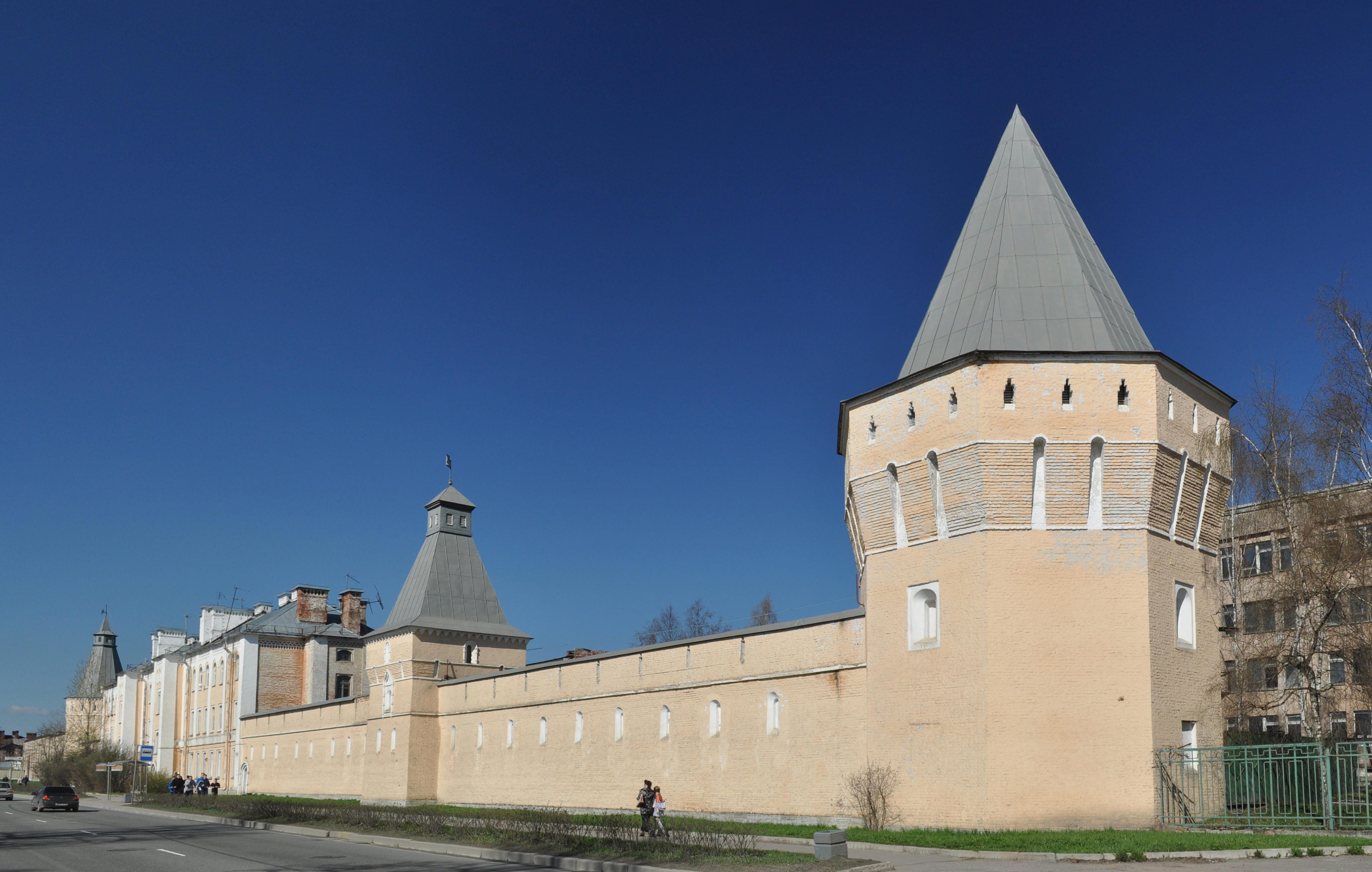 The wall of the barracks in Pushkin built under Nicolas II